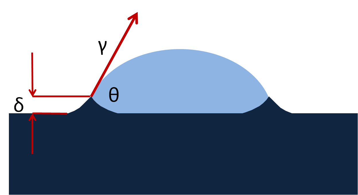 Vertical force balance between deposited drop and substrate